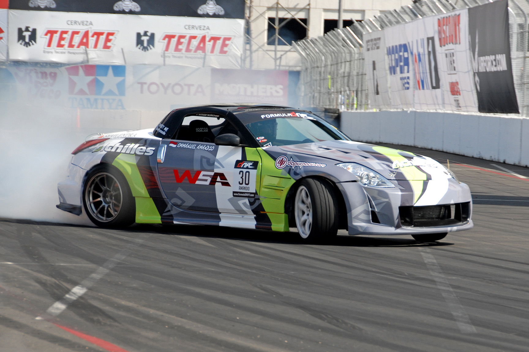 Formula DRIFT race car on track - photo by Glenn Francis of